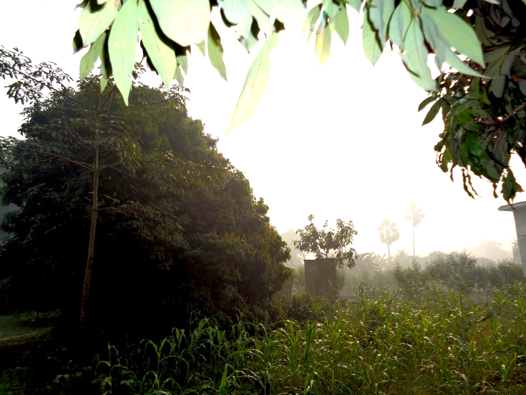 A view of winter morning sunrise from lychee garden in Muzaffarpur